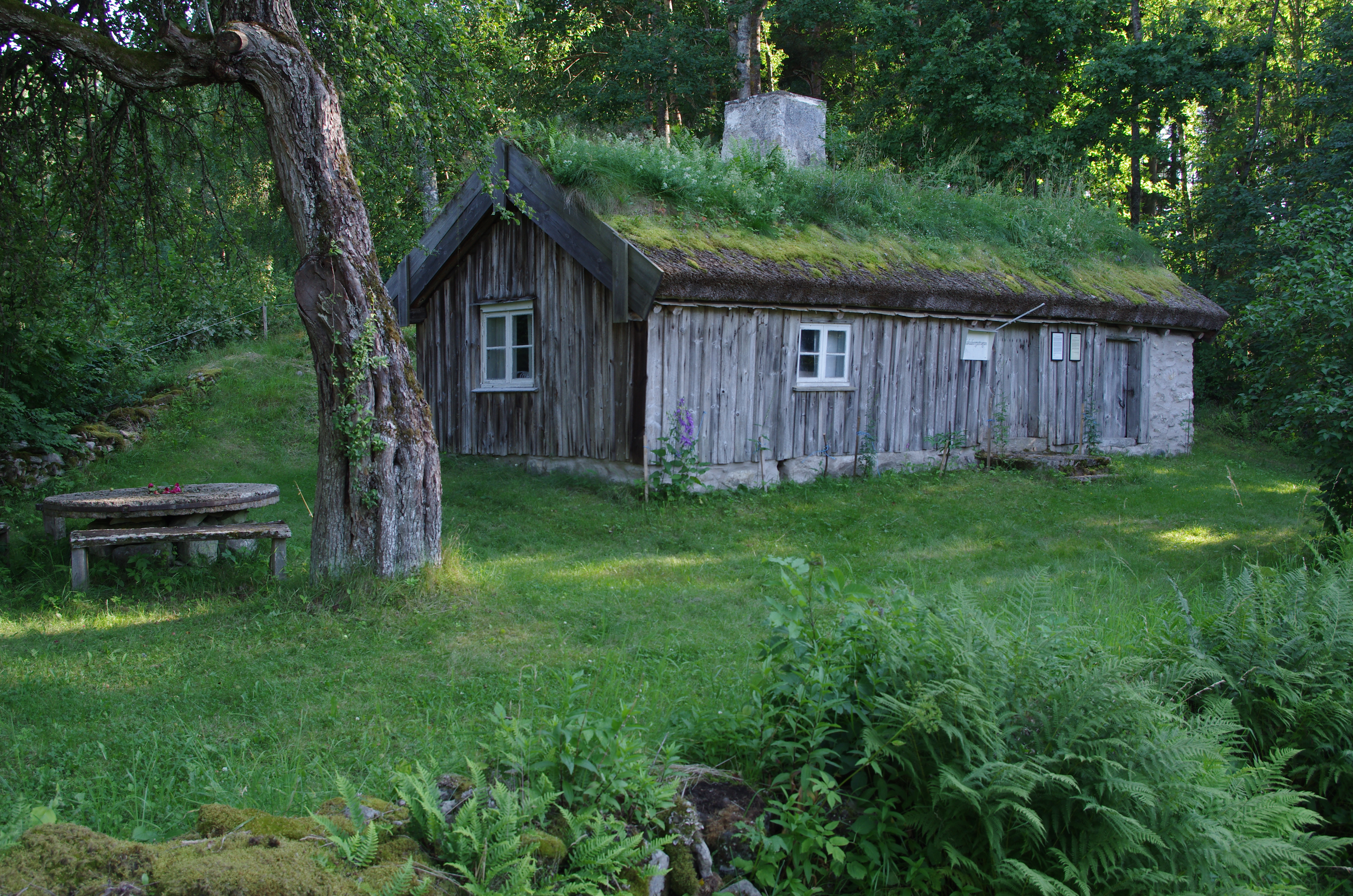 Flakabergsstugan (swedish:Flakeberg cabin) in Uppsala village in Ugglum parish, Gudhem hundred, Falköping municipality, former Skaraborg county, Västergötland, Västra Götaland county, Sweden.